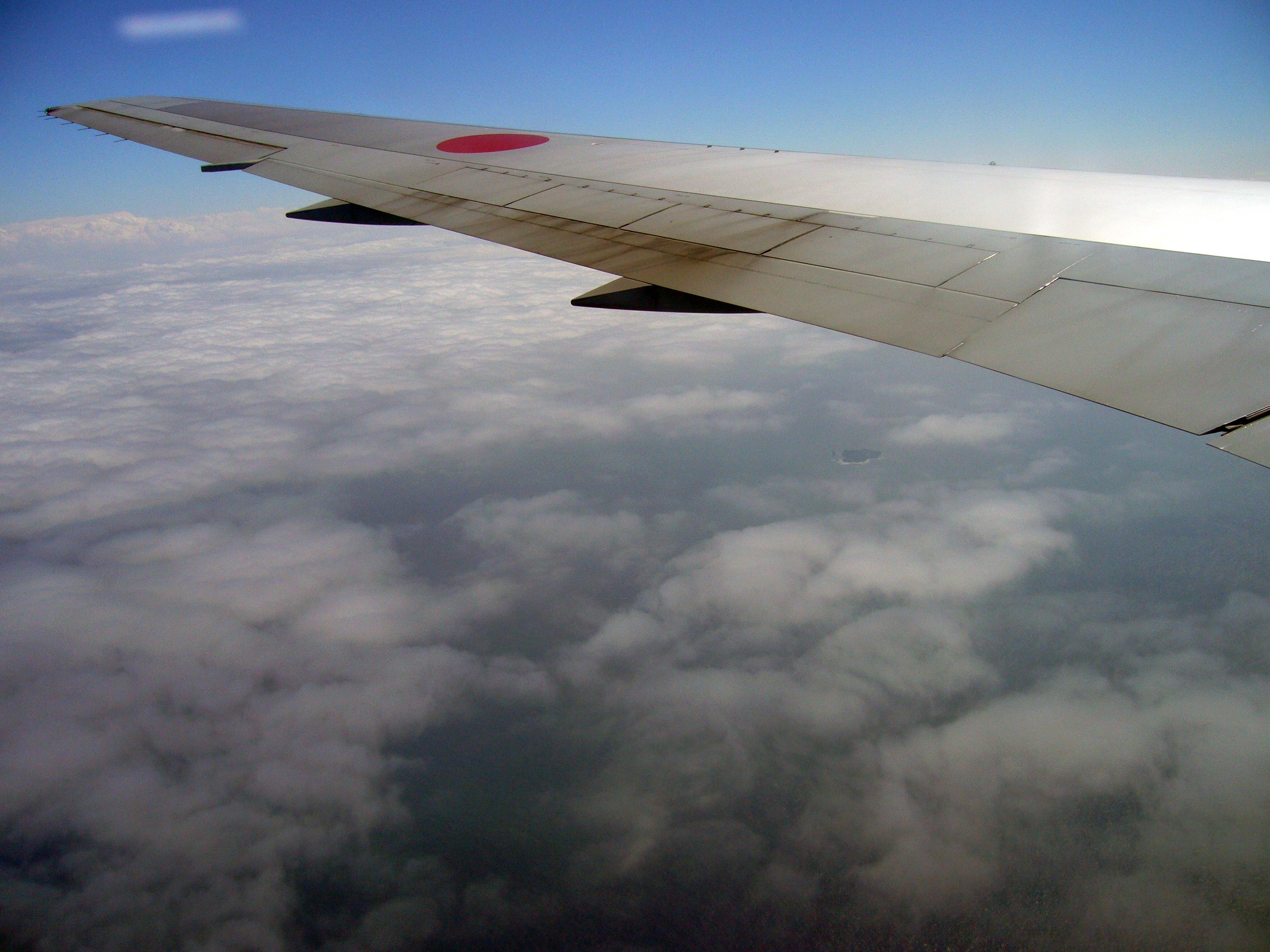 Mianhua Islet and Pingfong Rock (Zhongzheng District, Keelung, Taiwan (ROC)) in the East China Sea